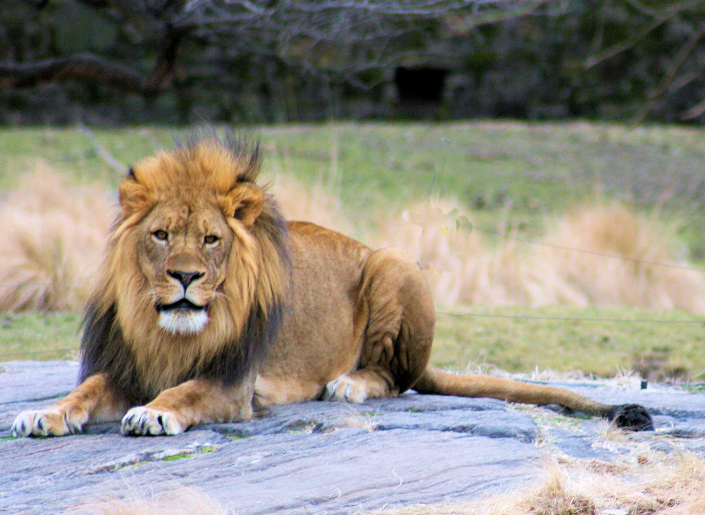 Lion at Bronx Zoo.